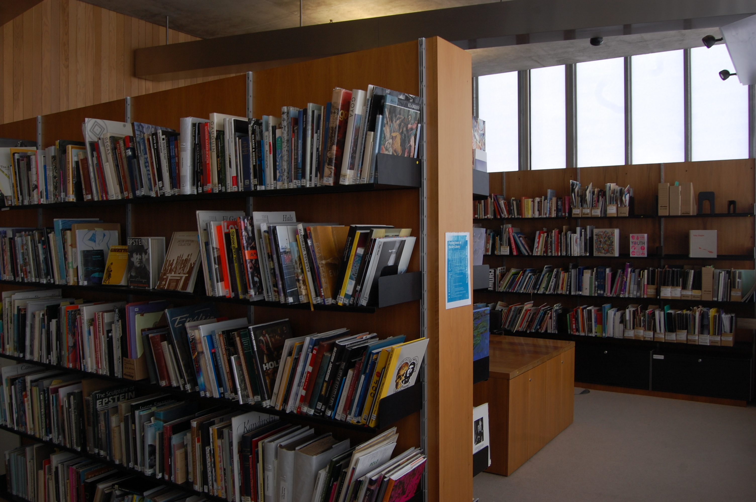 Interior of The New Art Gallery Walsall